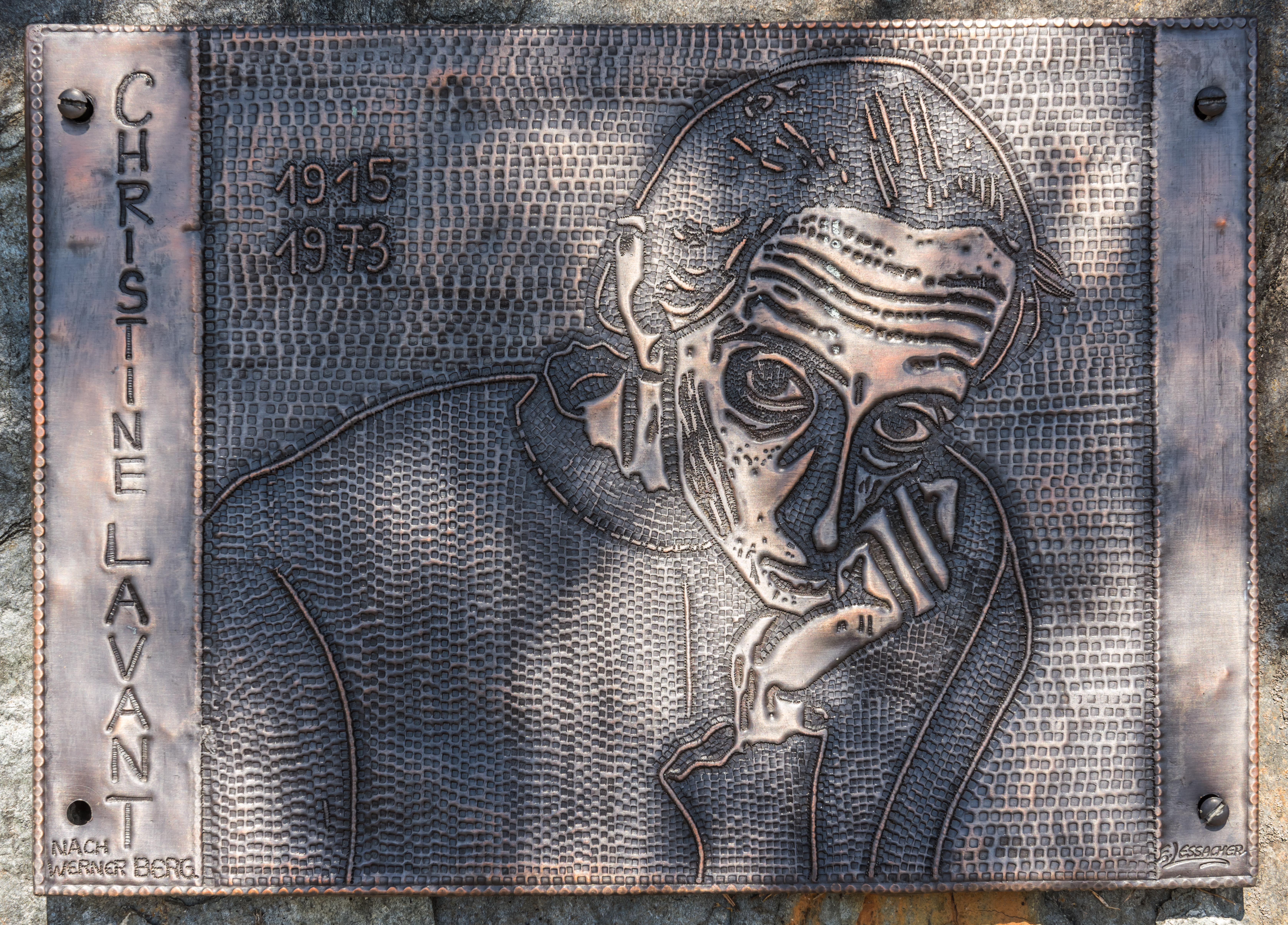 Memorial plaque for Christine Lavant at the poets rocks grove in Zammelsberg, market town Weitensfeld, district Sankt Veit an der Glan, Carinthia, Austria, EU